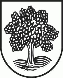 Coat of arms of Neehausen